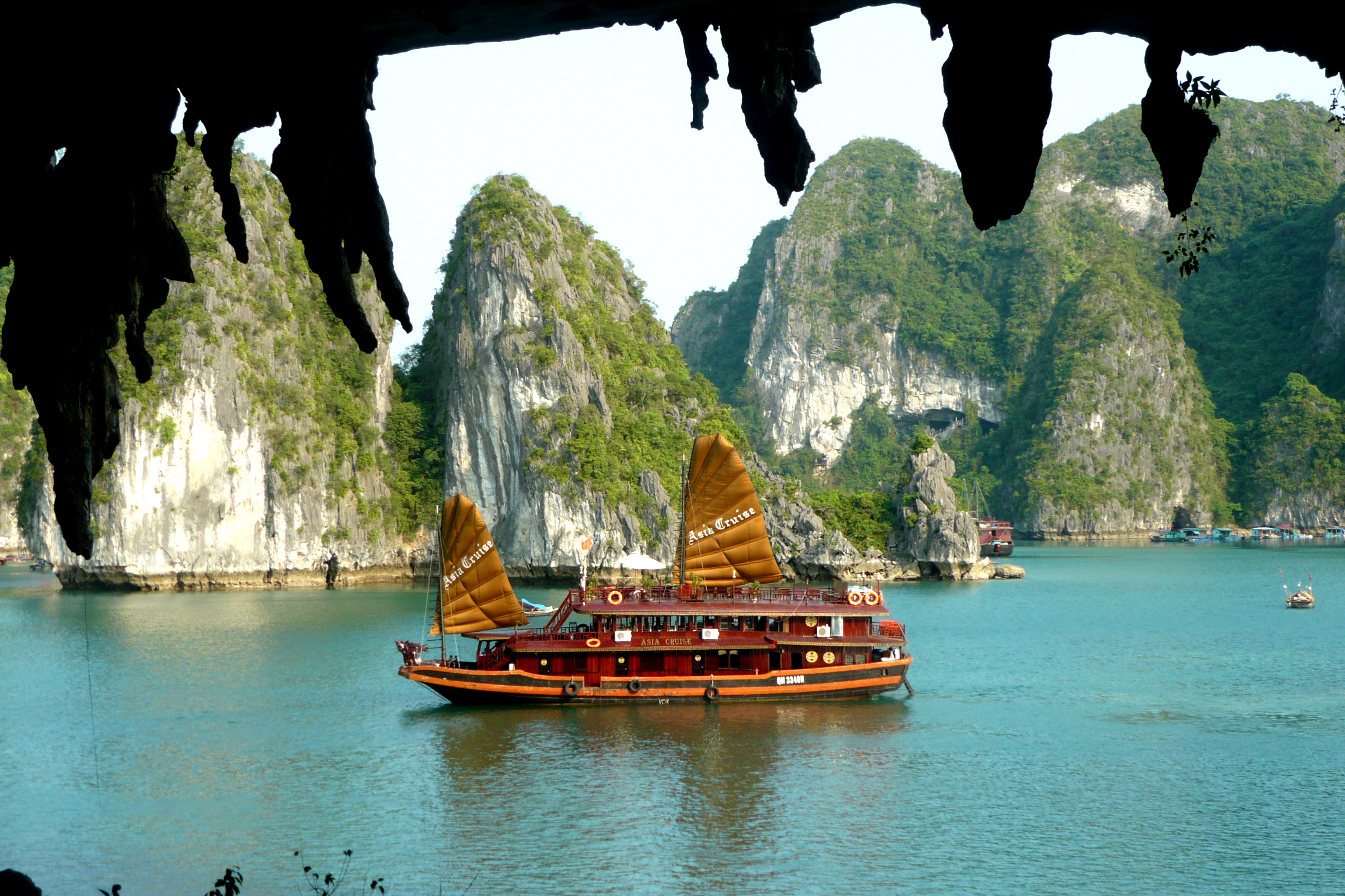 Halong bay, Vietnam is famous for its thousands of islands and many caves.